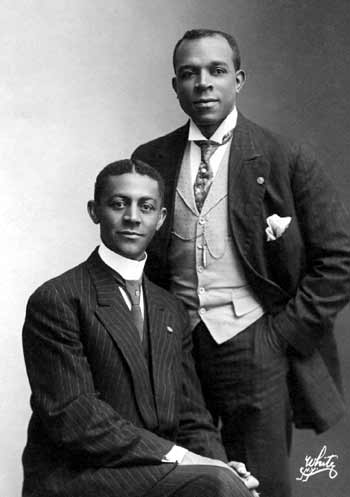 Bob Cole and John Rosamond Johnson, African American composers